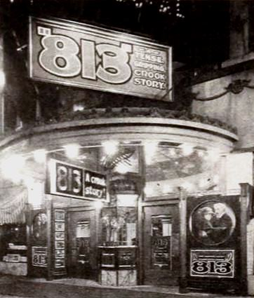 The American Theater in Butte, Montana, showing the American mystery film 813 (1920), on page 44 of the March 26, 1921 Exhibitors Herald.